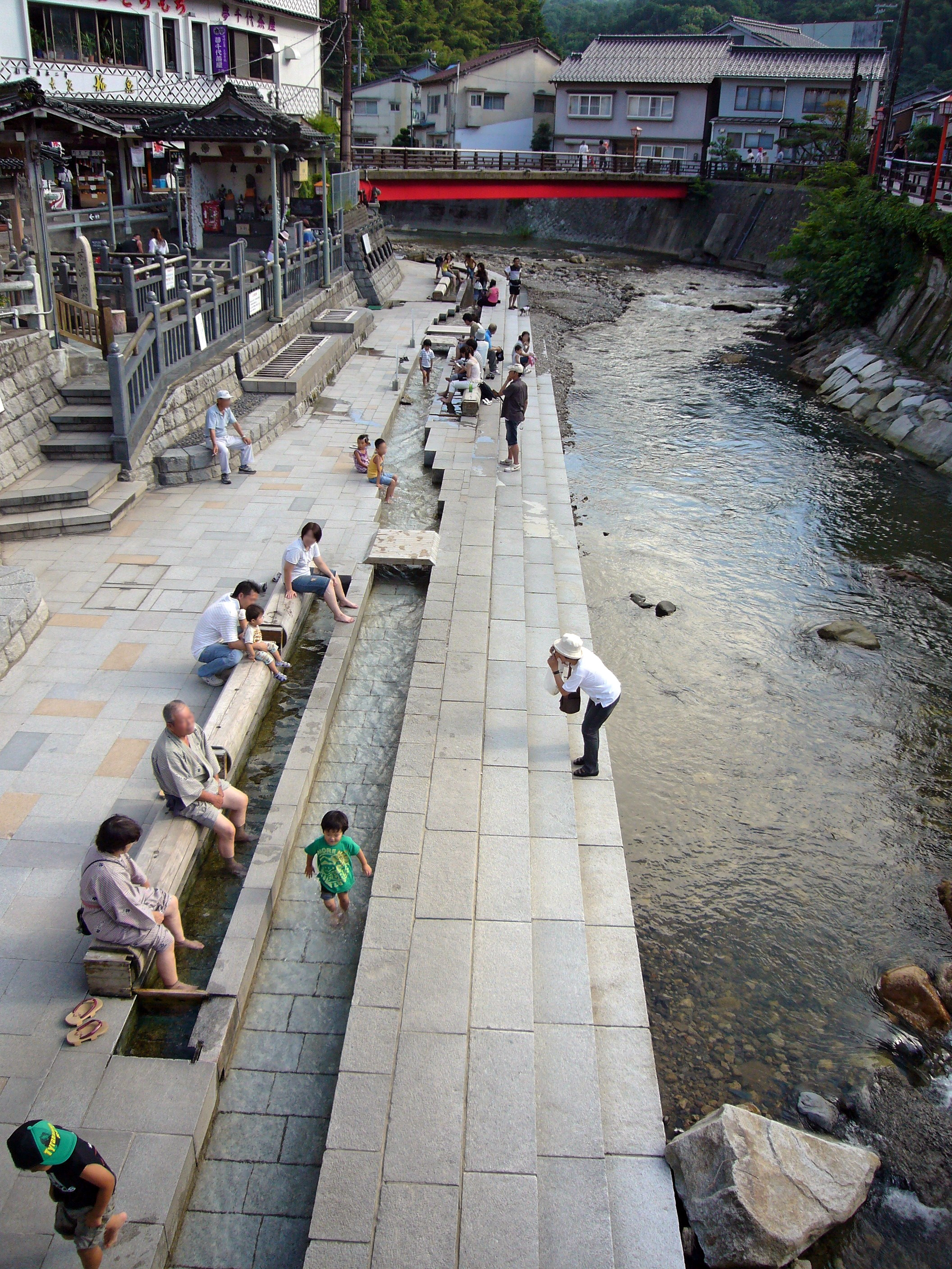 Yumura Onsen in Shinonsen, Hyogo prefecture, Japan